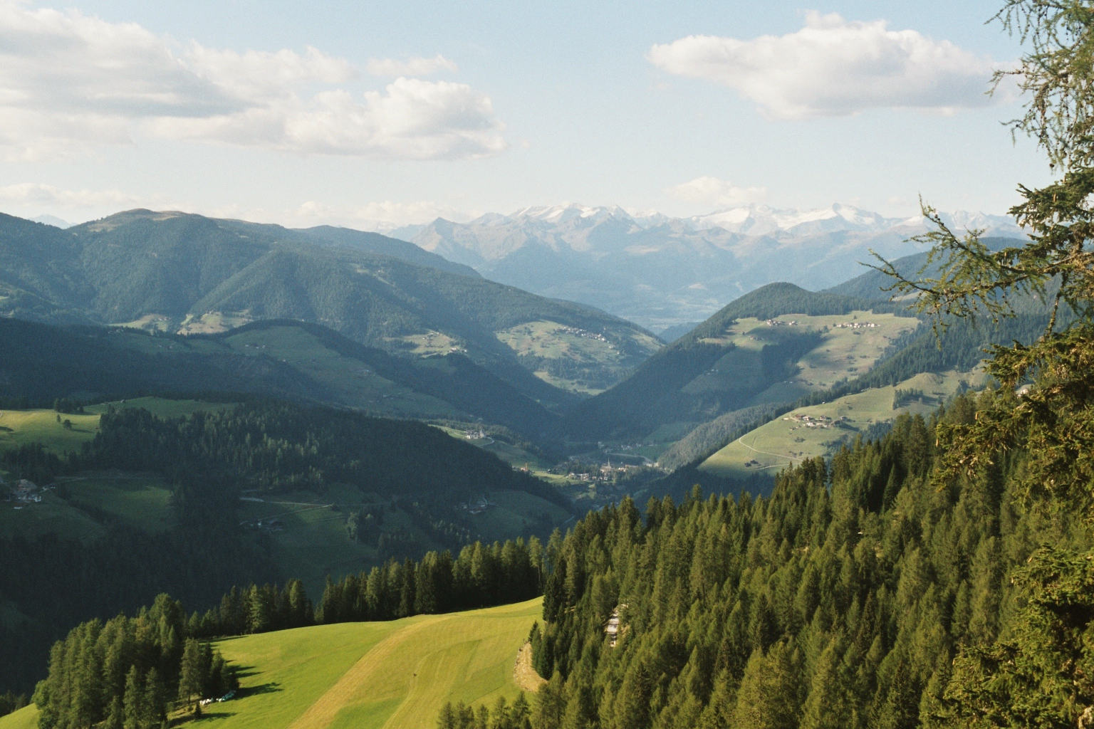 View from La Val in South Tyrol to the north on the lower Val Badia, the mountains of the Zillertal Alps in the background.